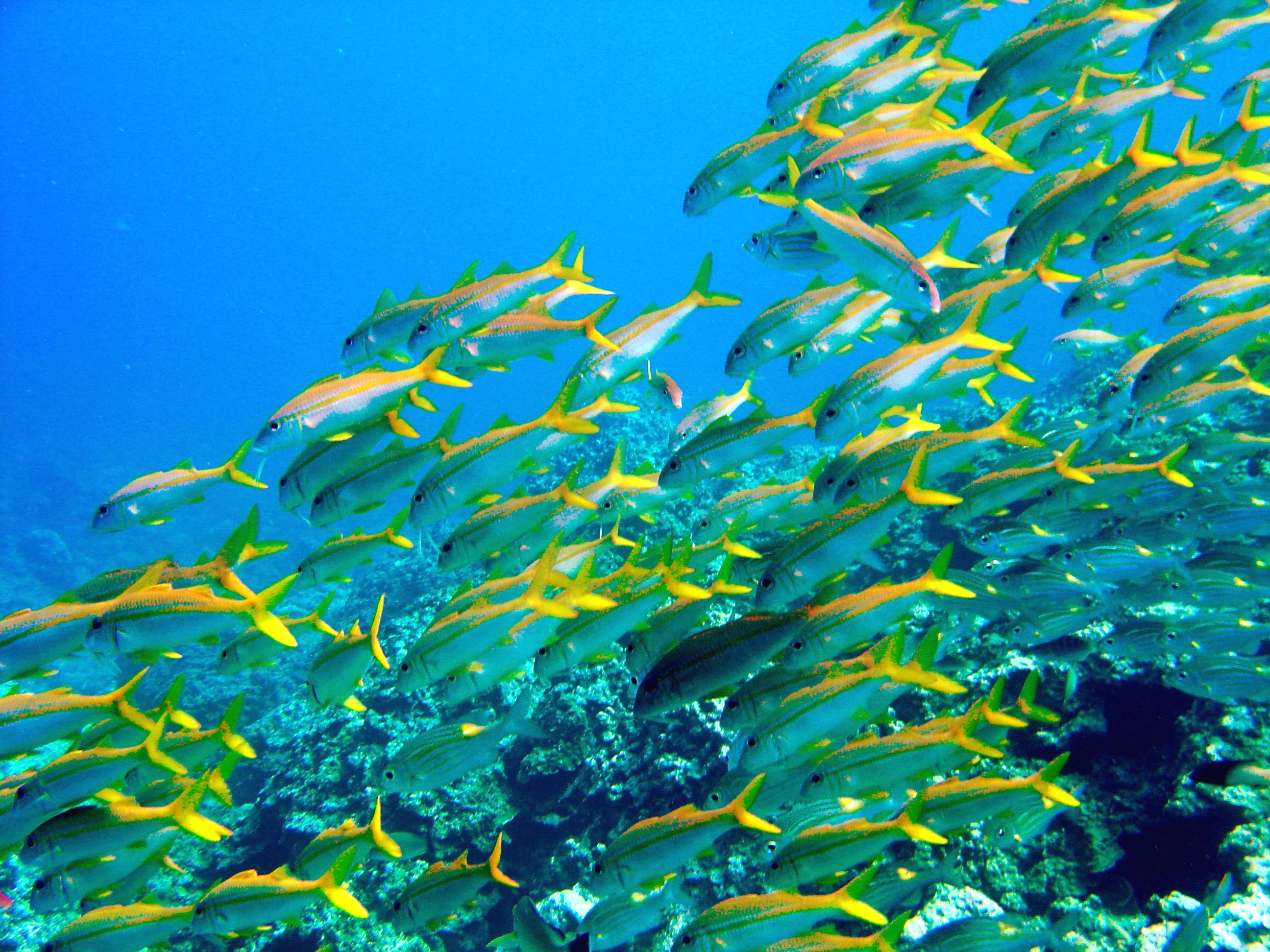 Yellowfin goatfish (Mulloidichthys vanicolensis) Image ID: reef0910, NOAA's Coral Kingdom Collection Location: Guam, Mariana Islands